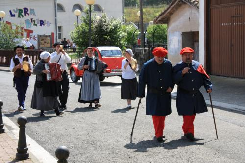 Mikelete named police depiction in Alegia, Gipuzkoa.